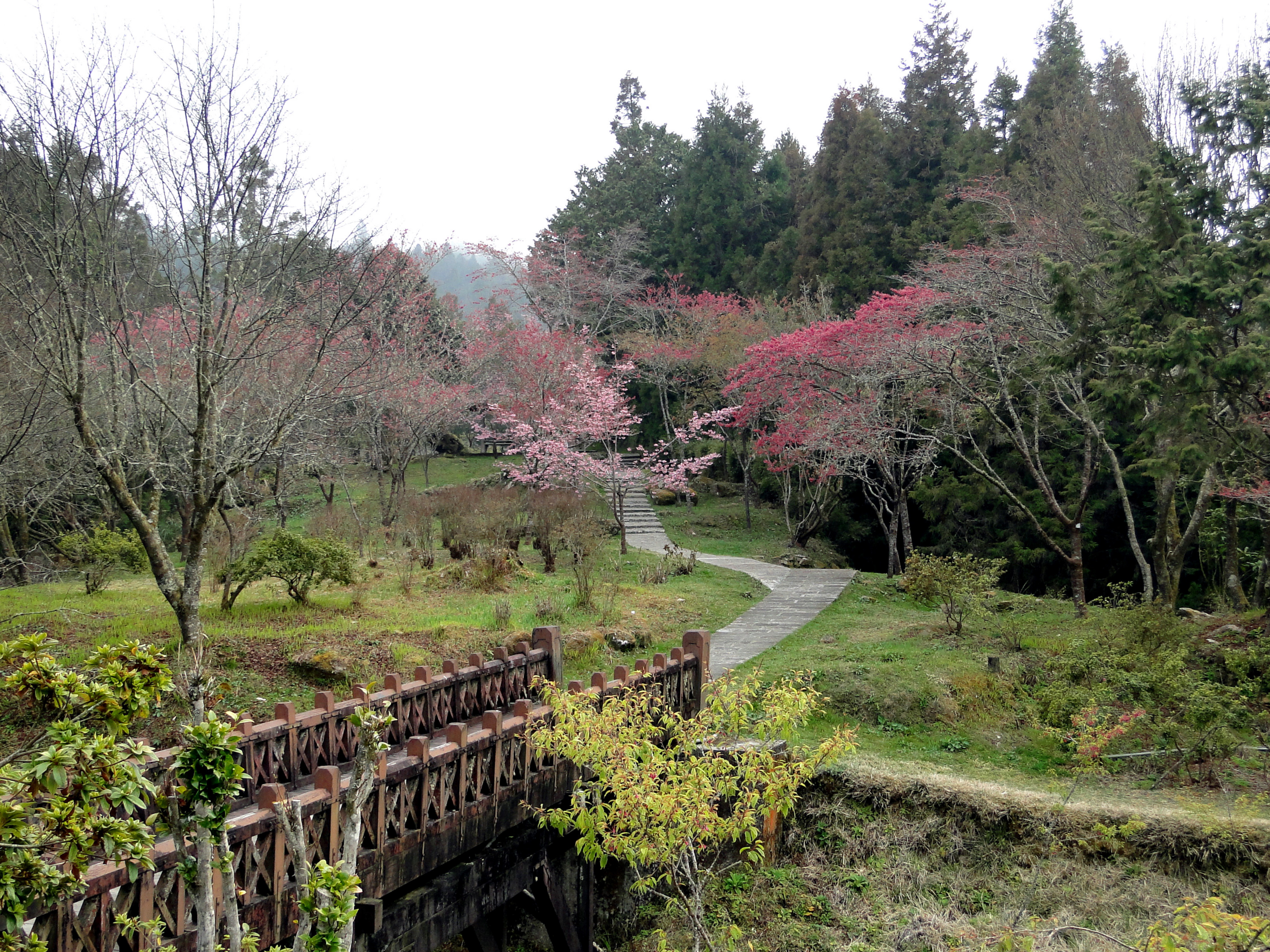 Alishan Forest Park, Taiwan